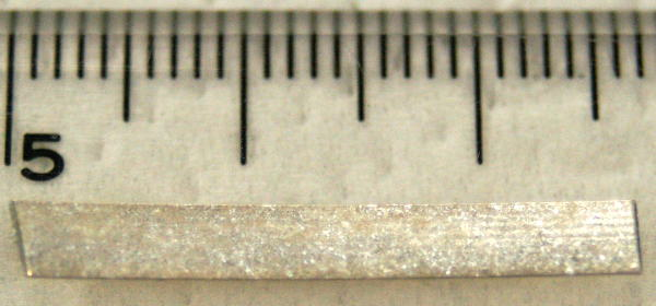 PIT tape of BISCO 2223